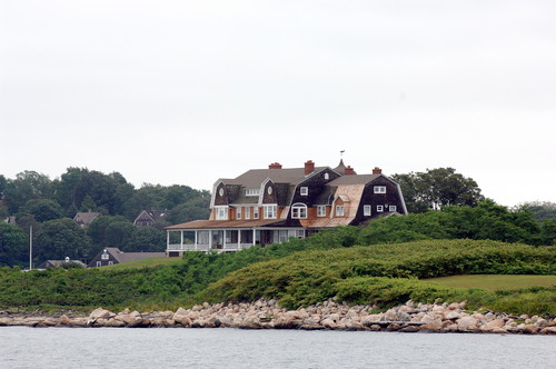 Personal photo take from Fishers Island Ferry